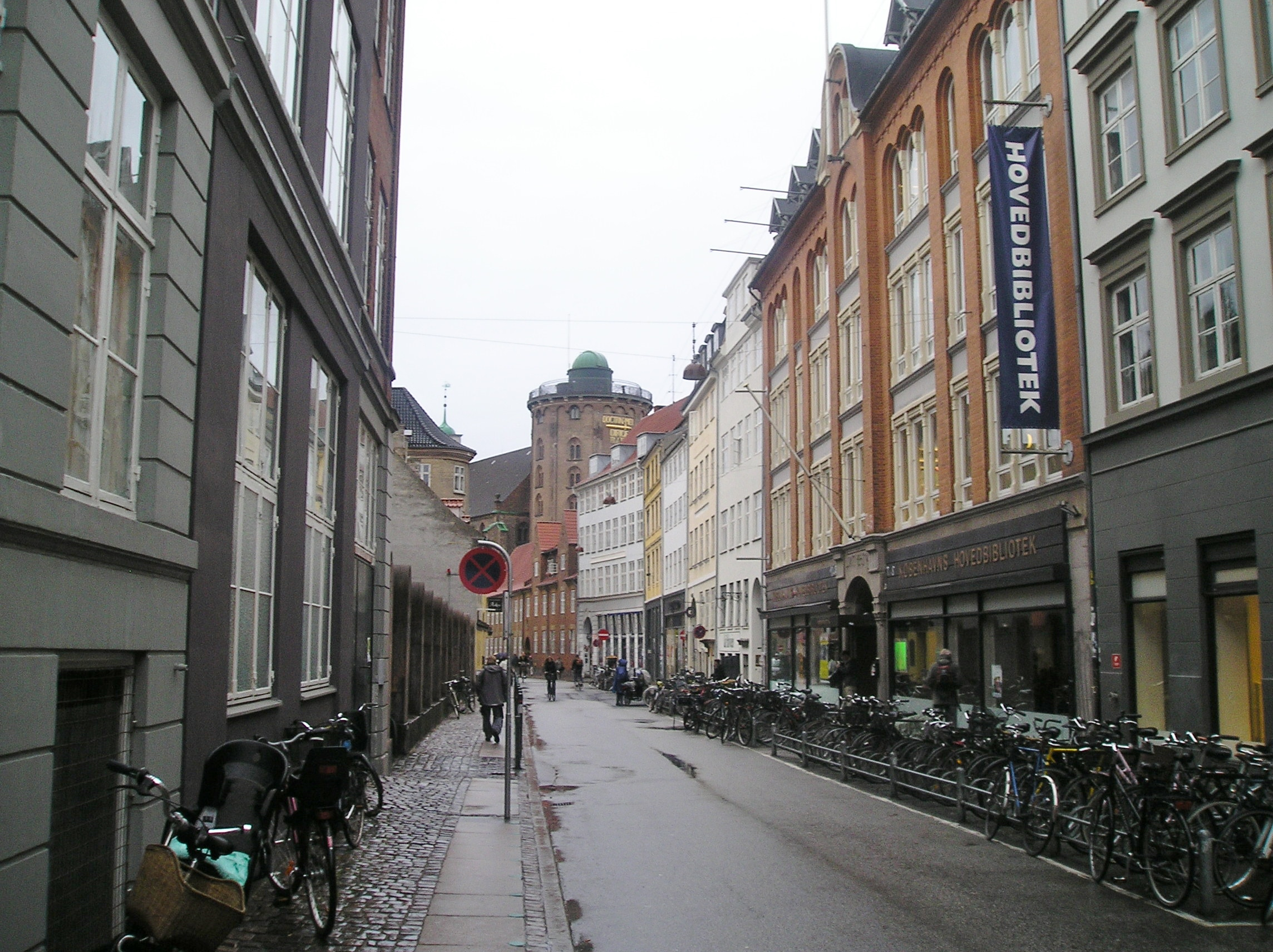 The street Krystalgade in Copenhagen. At the right Københavns Hovedbibliotek (Copenhagen Head Library) and in the background Rundetårn (The Round Tower).